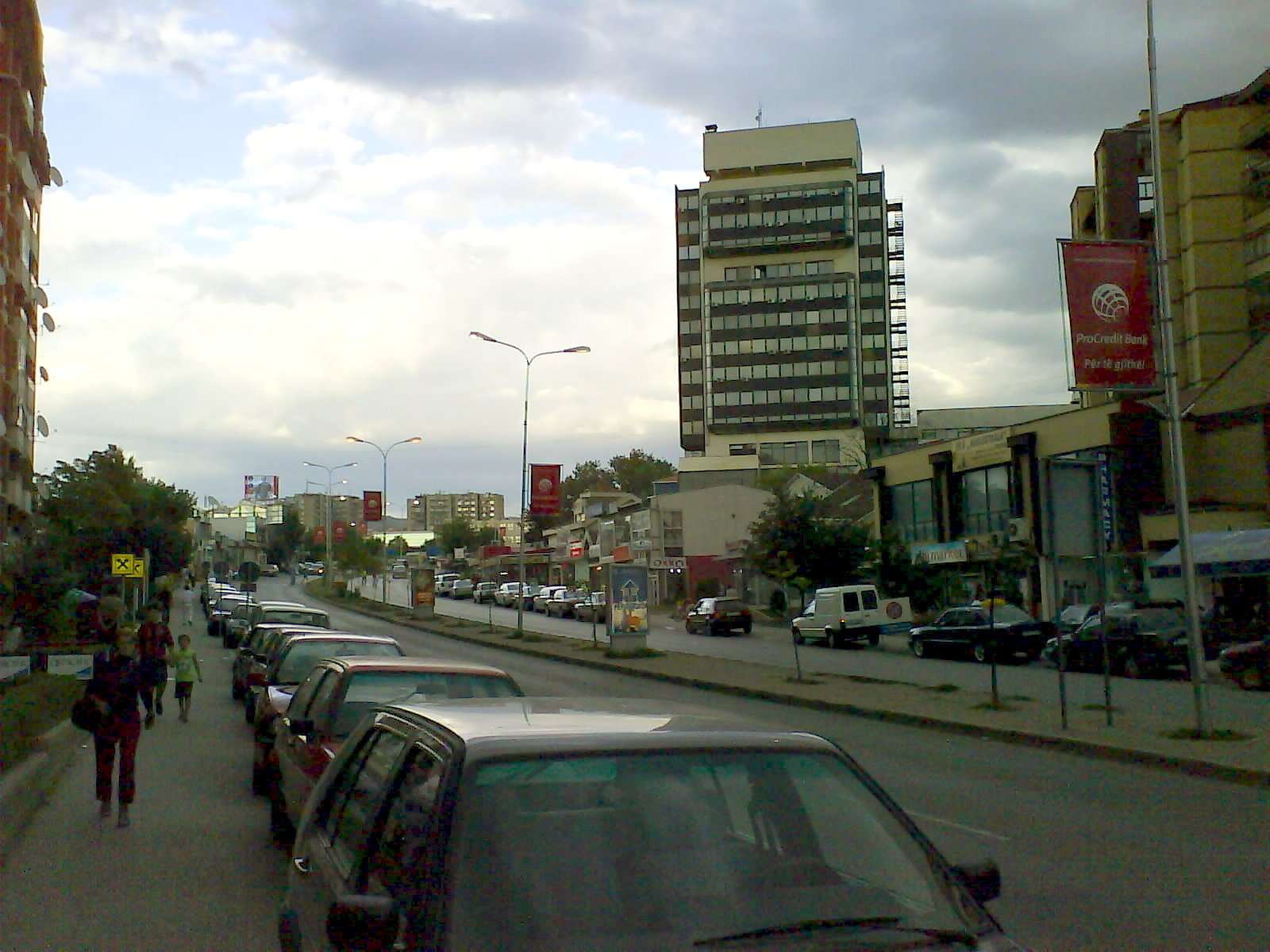 Bill Clinton Boulevard Prishtinë/Pristina Kosovo